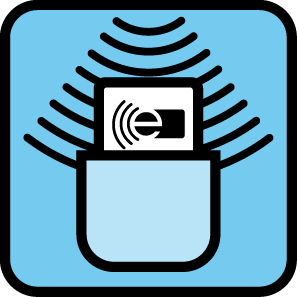 pictogram: Be in / Be out